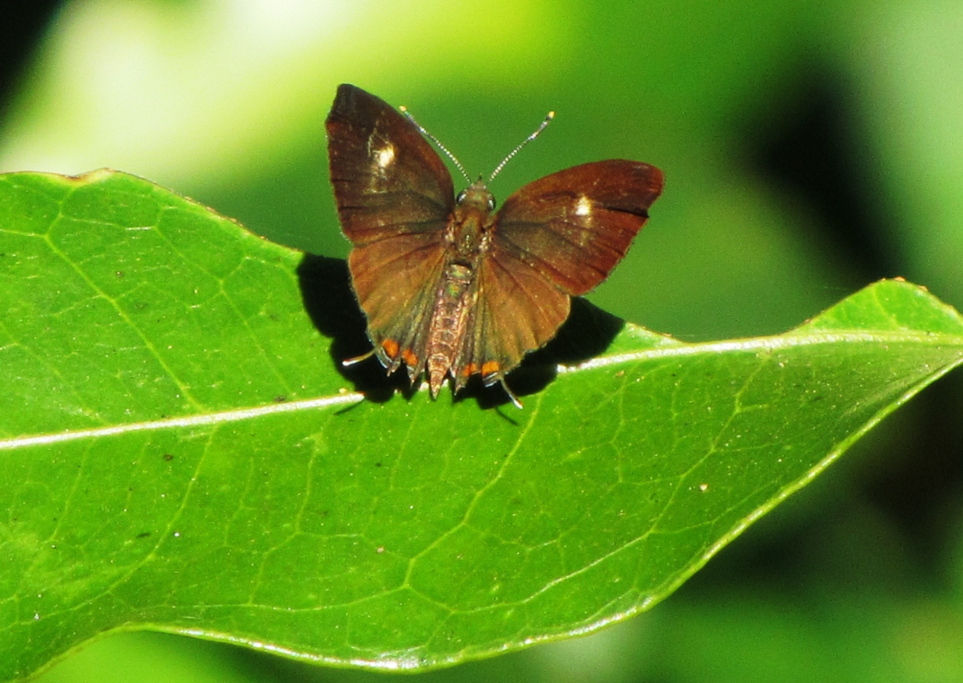 Markings of upperside of the Monkey-puzzle butterfly (Rathinda amor). Bhootkhamb plateau, Pisgal, Ponda district, Goa, India.